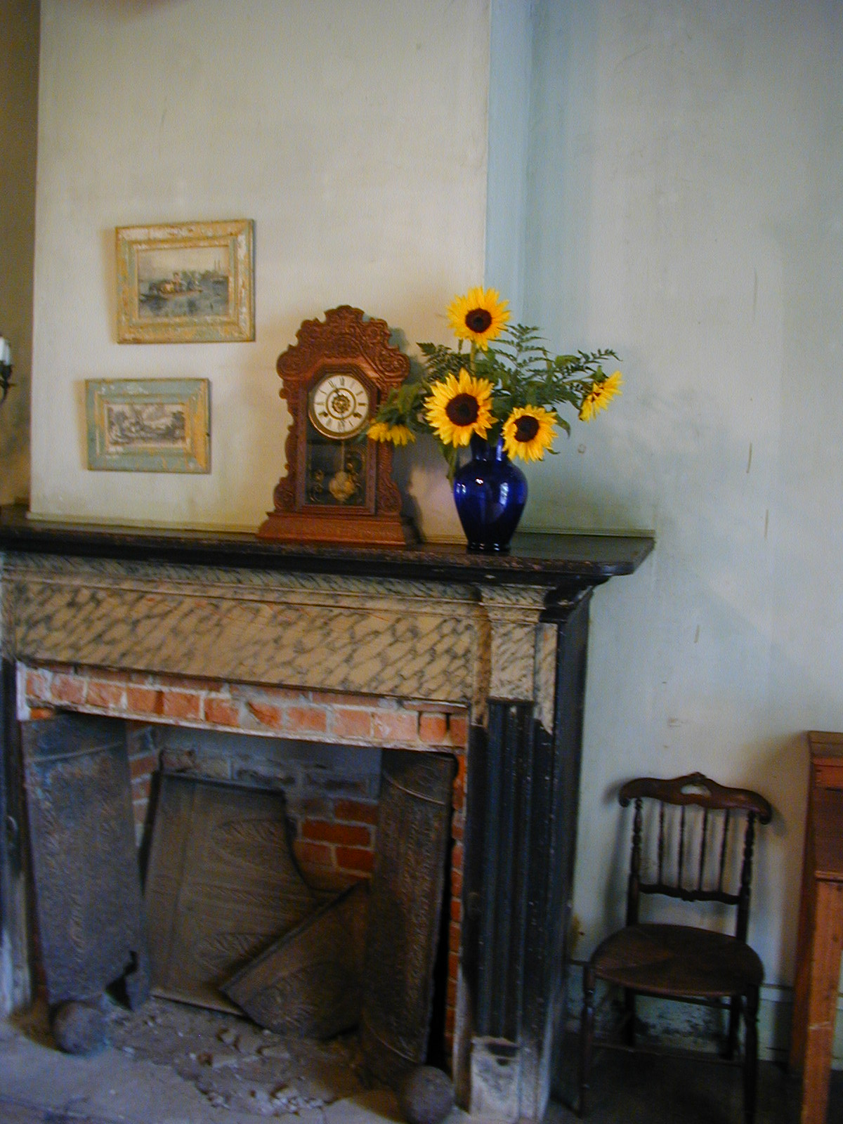 Inside the Laura Plantation House, Louisiana, before the fire. Fireplace and mantle clock.